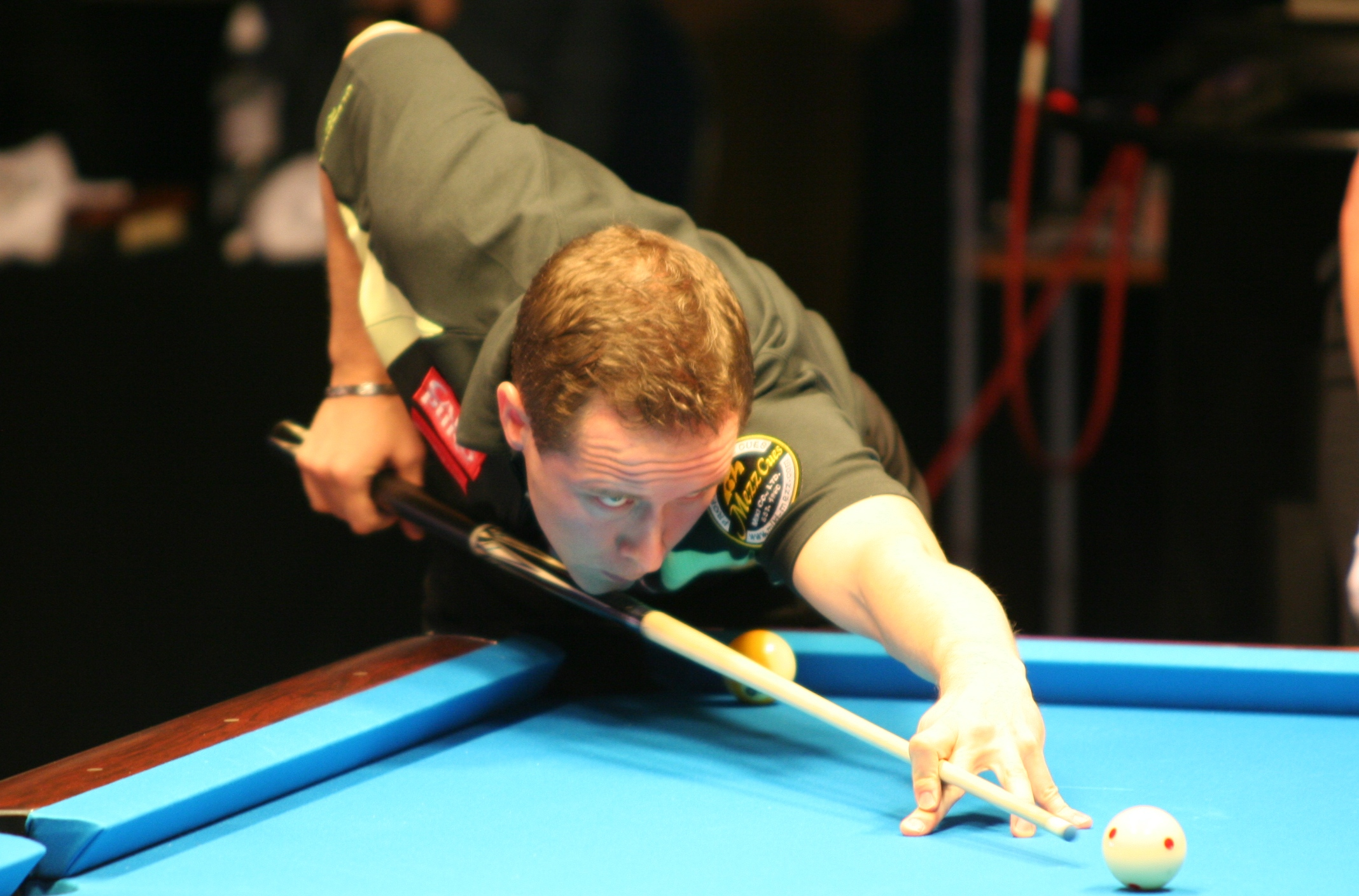 Finish pool player Mika Immonen at the Mosconi Cup 2008 in Malta.